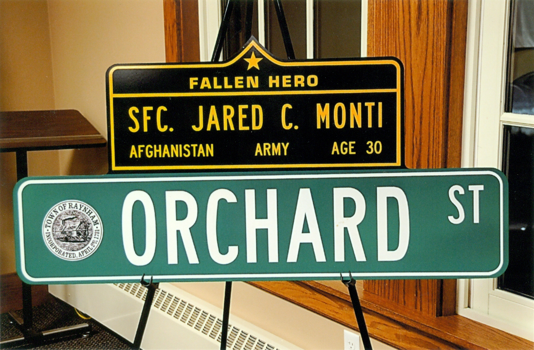 A personal photo of Sergeant 1st Class Jared C. Monti, the first Soldier recipient for actions in Afghanistan/Operation Enduring Freedom. To learn more, visit